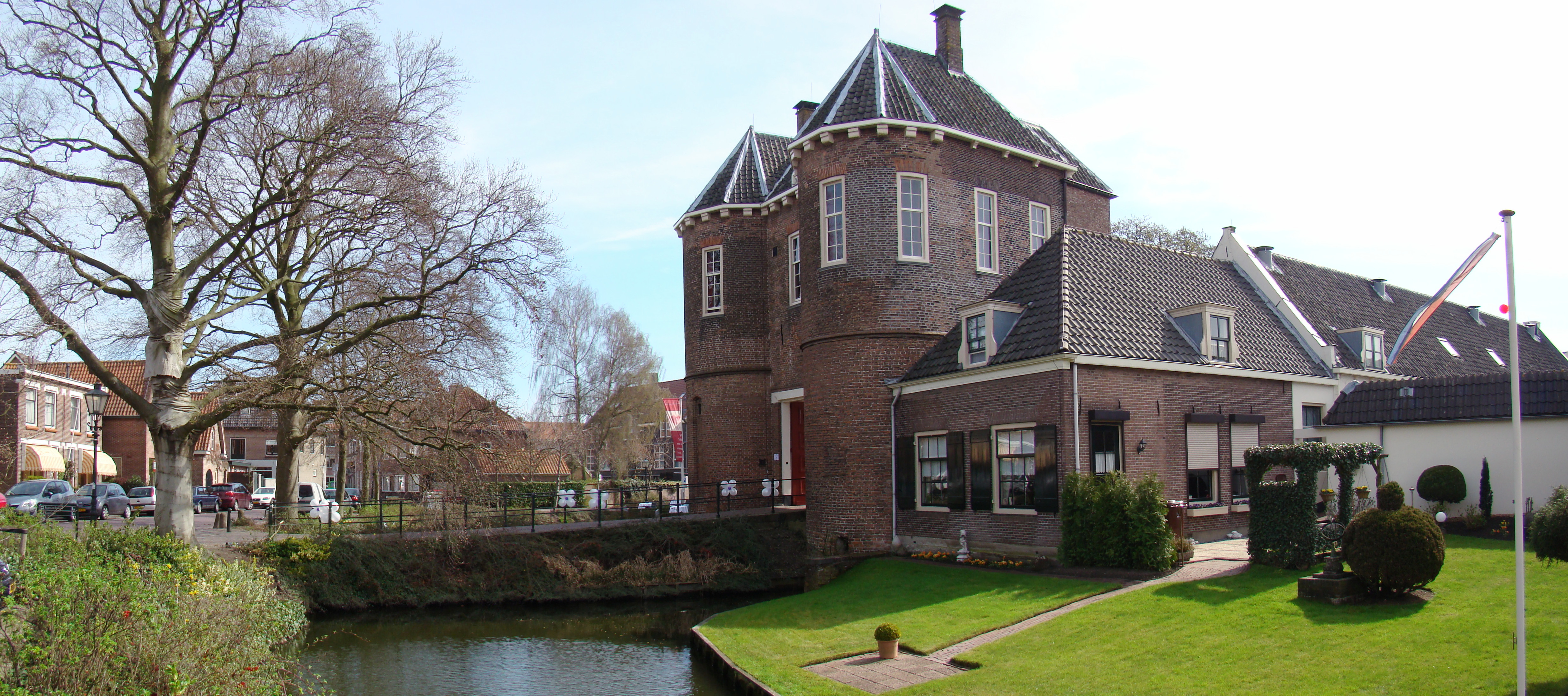 Castlegate of Montfoort